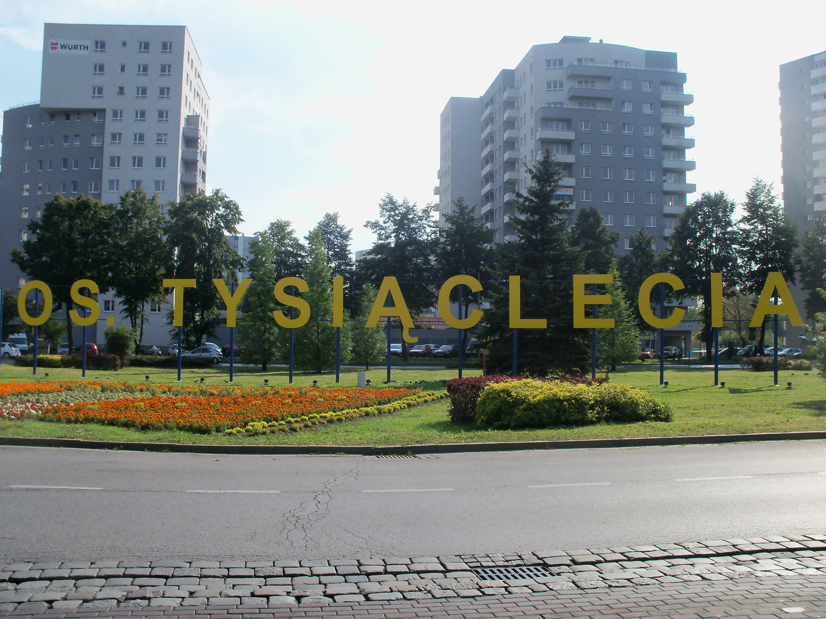 Sławika Rondabout in Katowice